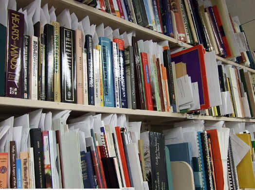 Incoming books, Smithsonian Libraries.